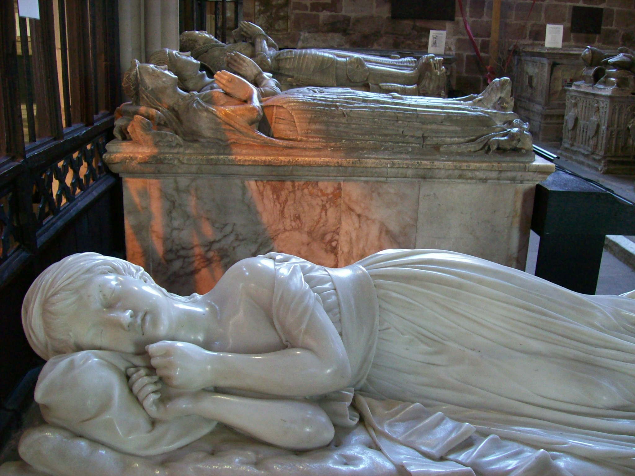 Effigy of Penelope Boothby (d.1791) by Thomas Banks, St Oswald, Ashbourne